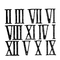 Roman numerals II III VII VI VIII XI IV I XII V X IX